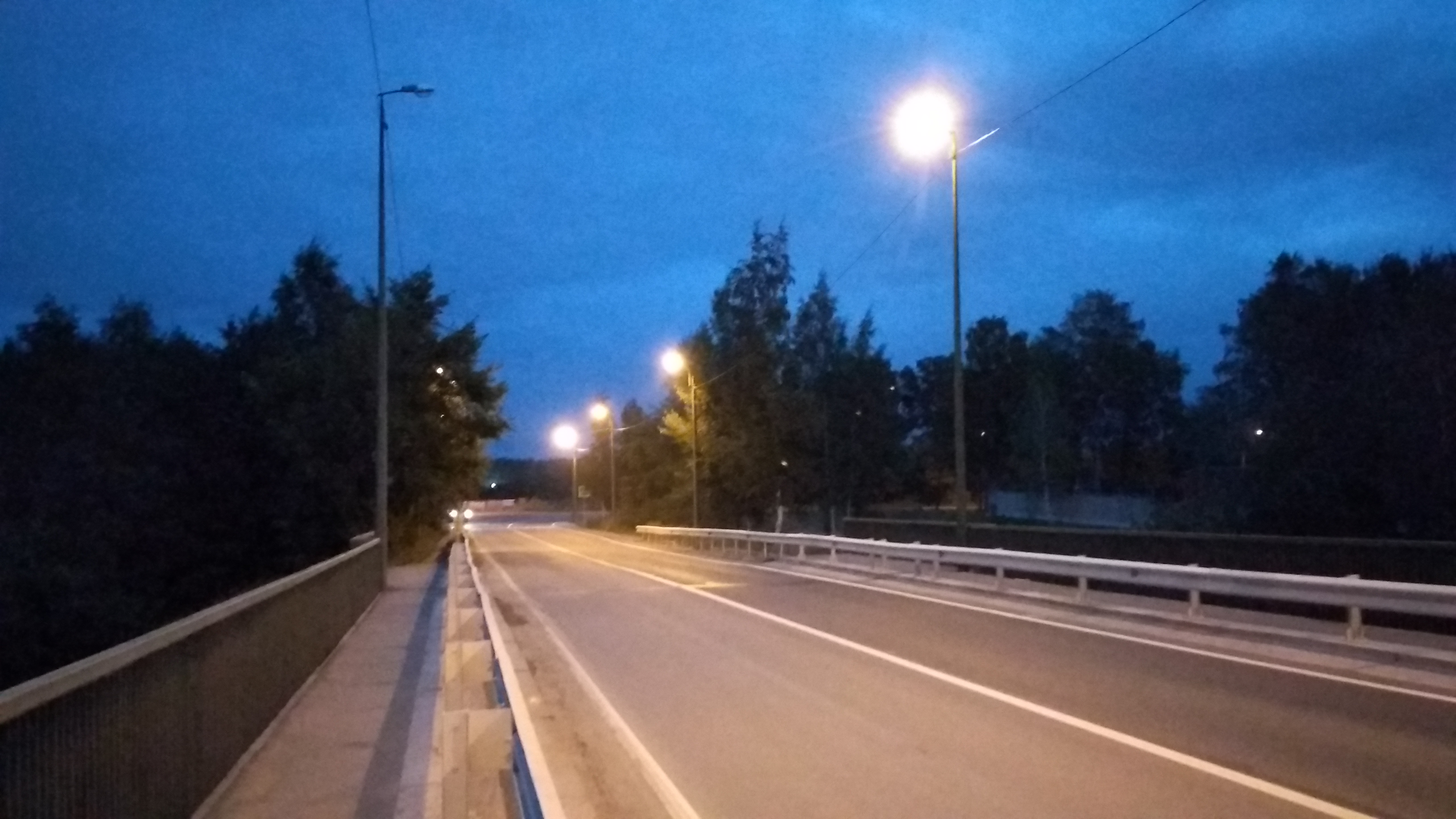 Chelyabinsky bridge in St Petersburg